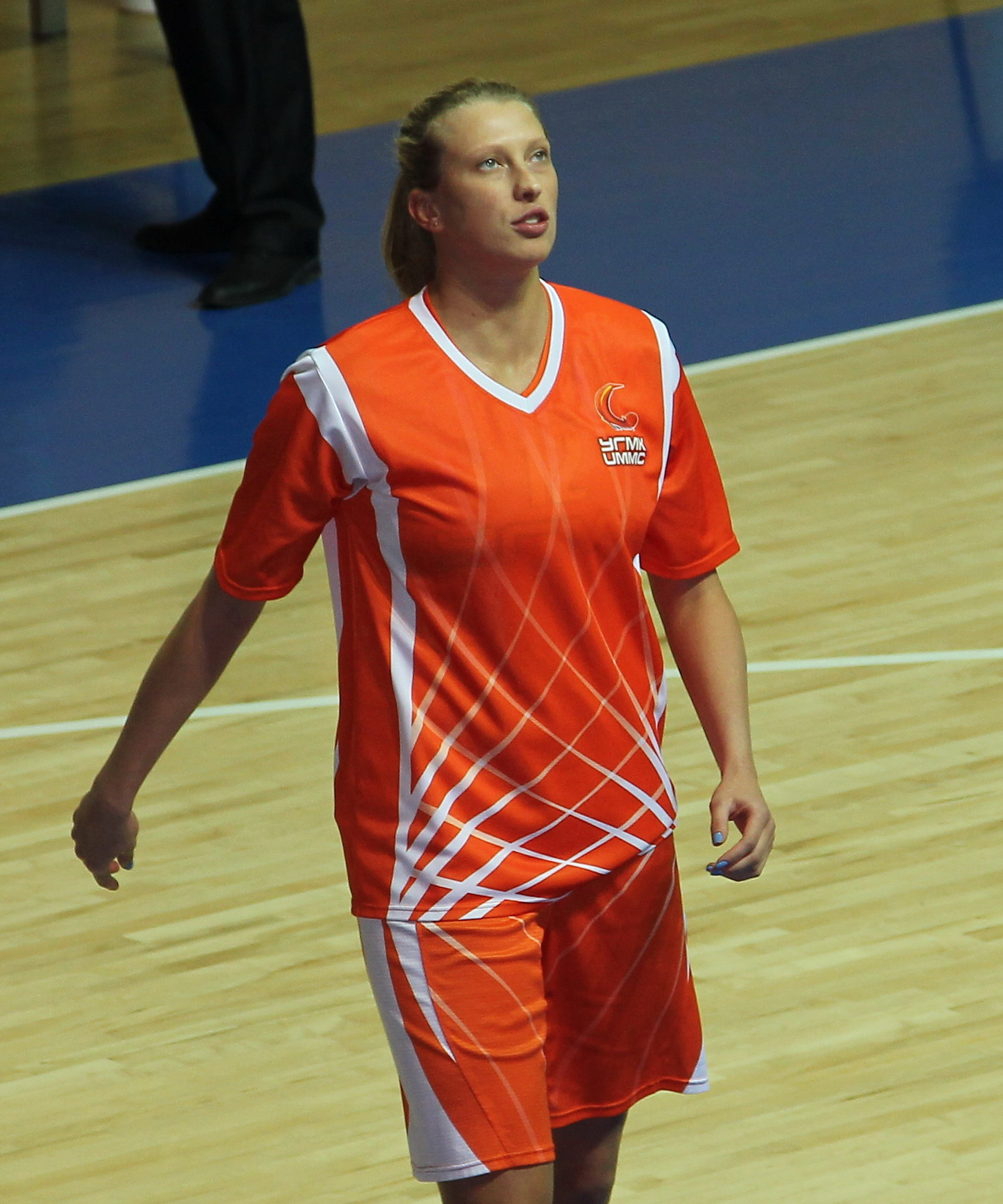 Russia, Vologda, Tatiana Vidmer in game «Vologda-Chevakata» vs «UMMC» (Yekaterinburg)